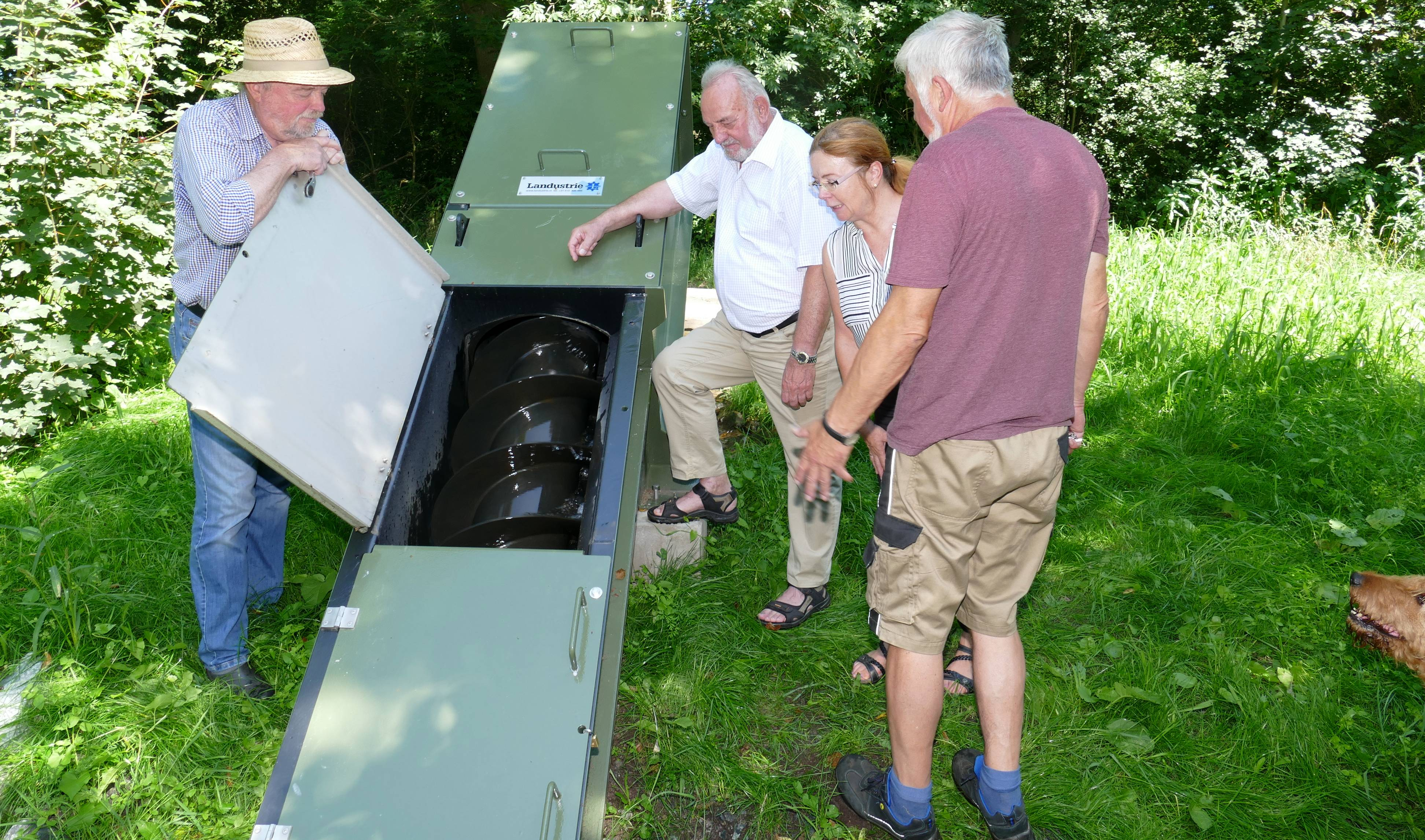 an Archimedes' screw